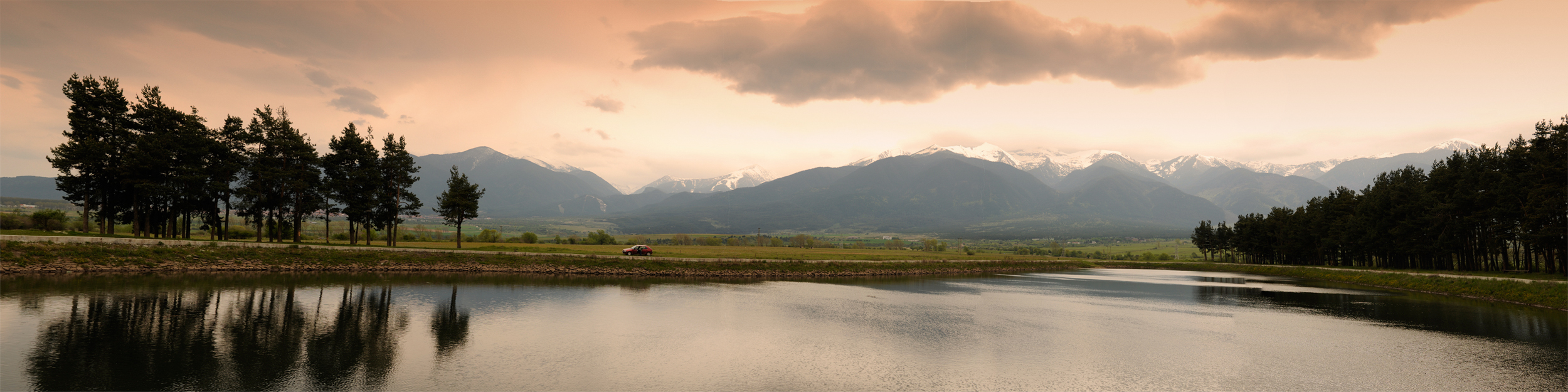 View of Pirin Mountains from lake in Razlog